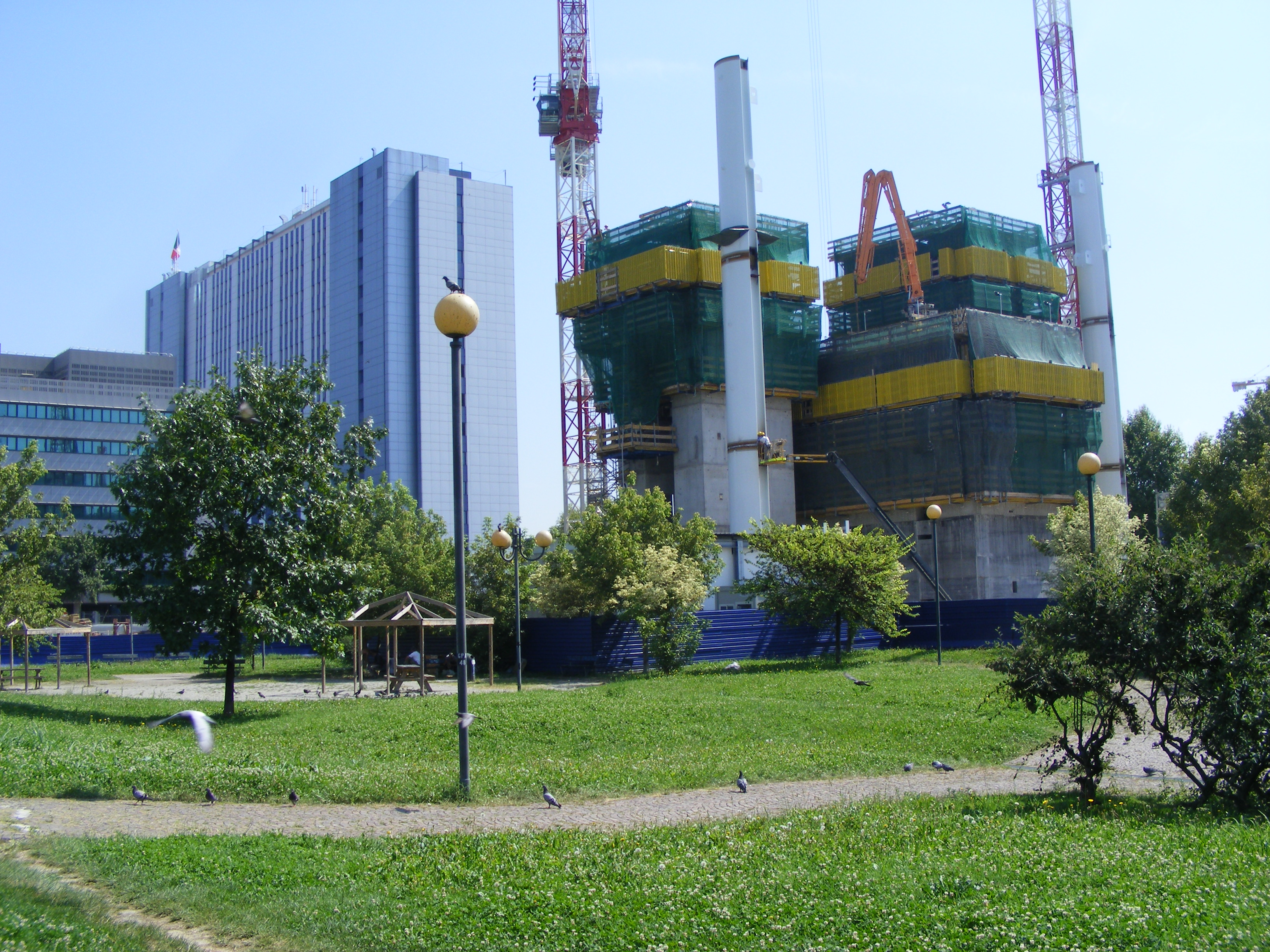 Intesa headquarters in Turin - the foundations (August 2008)